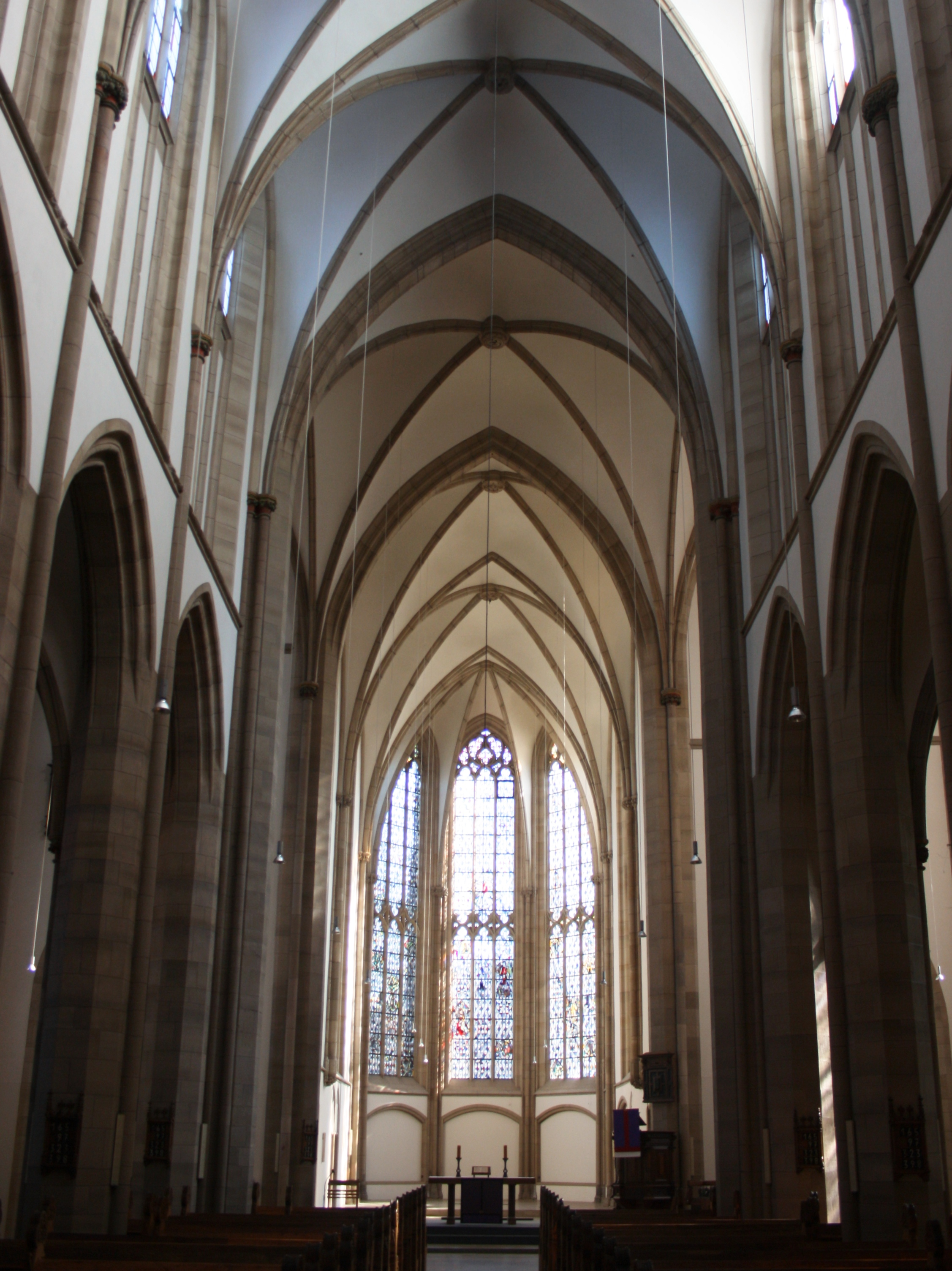 Duisburg, Germany: Church St. Salvator, nave towards east.